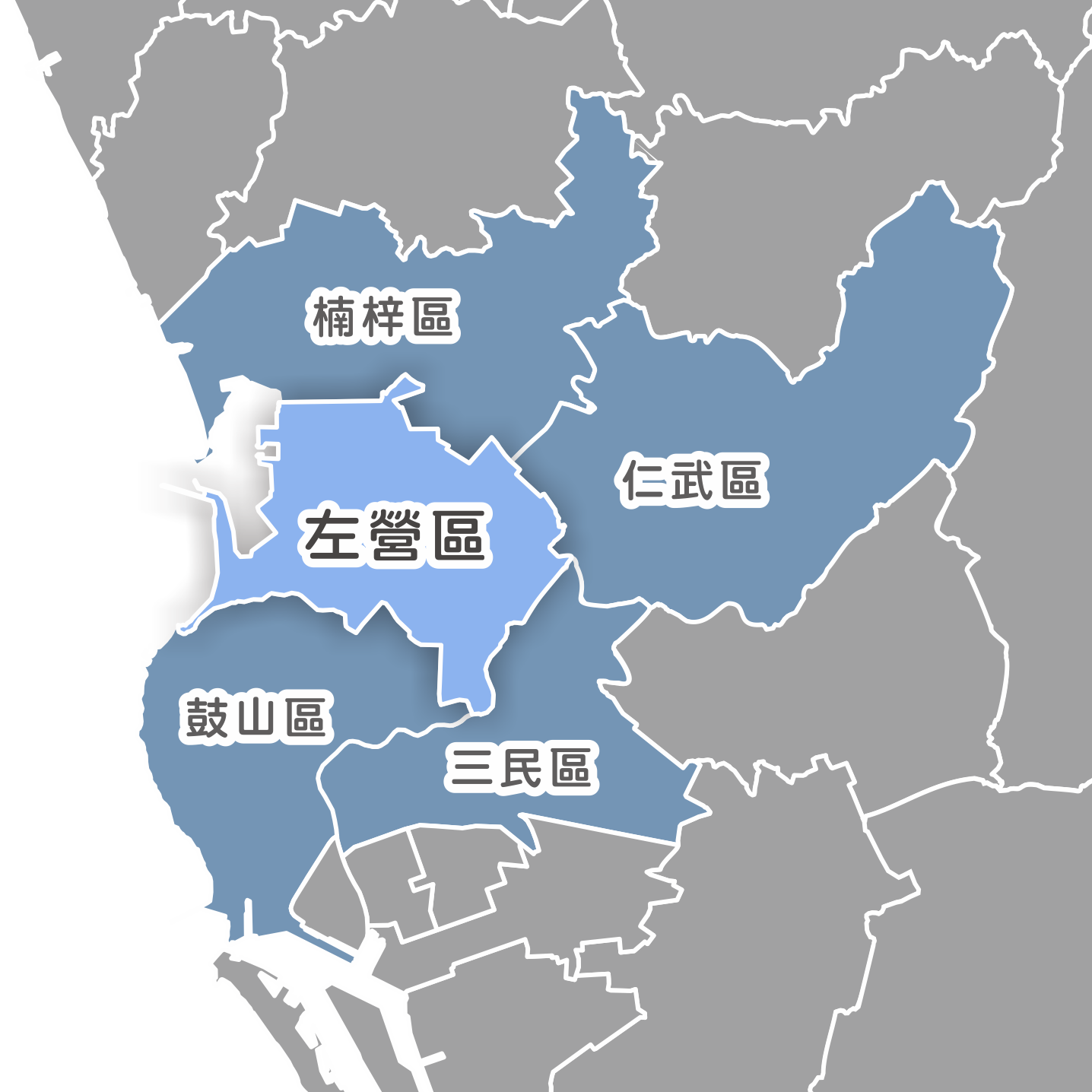 zuoying